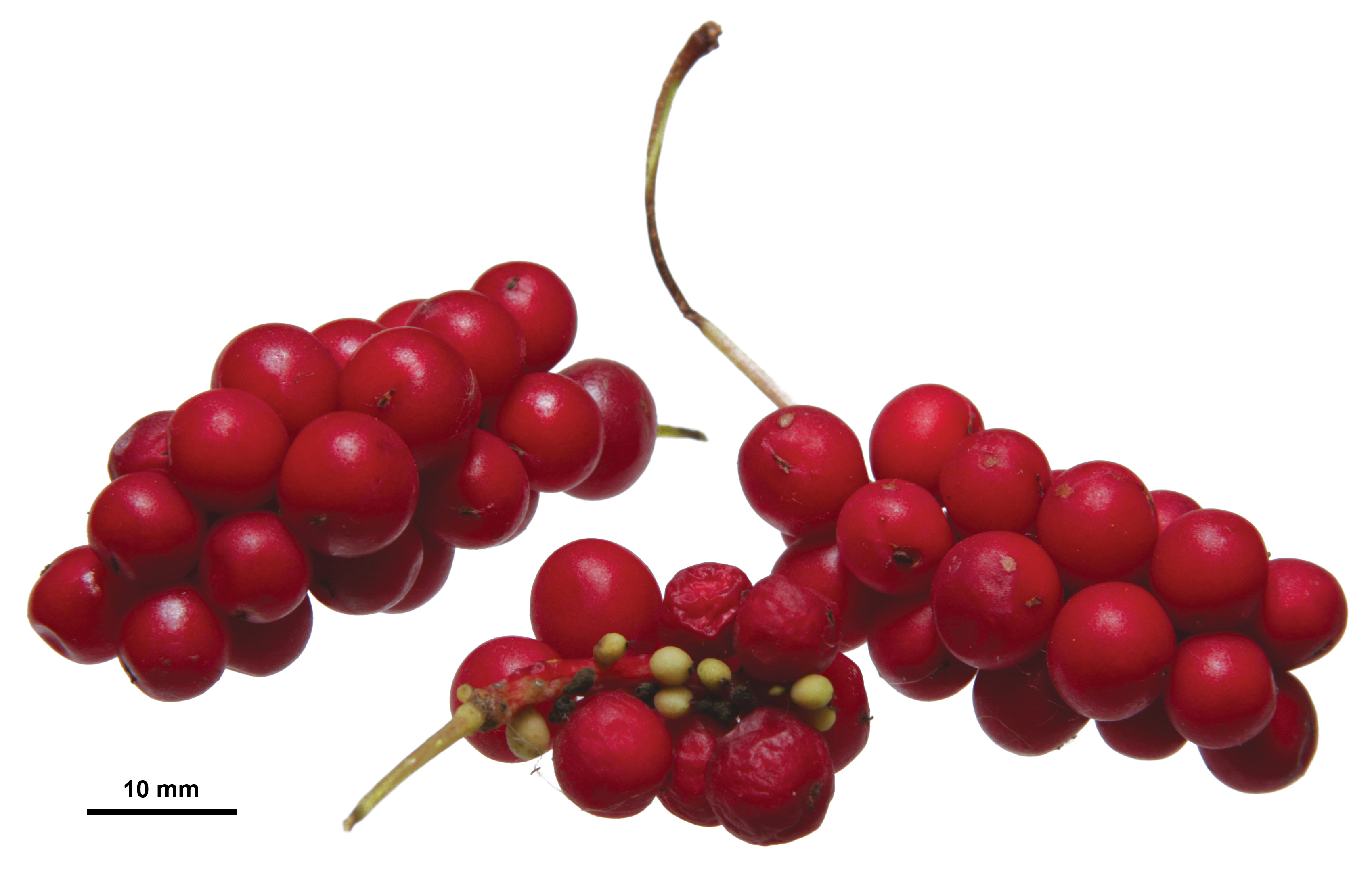 Schisandra chinensis berries